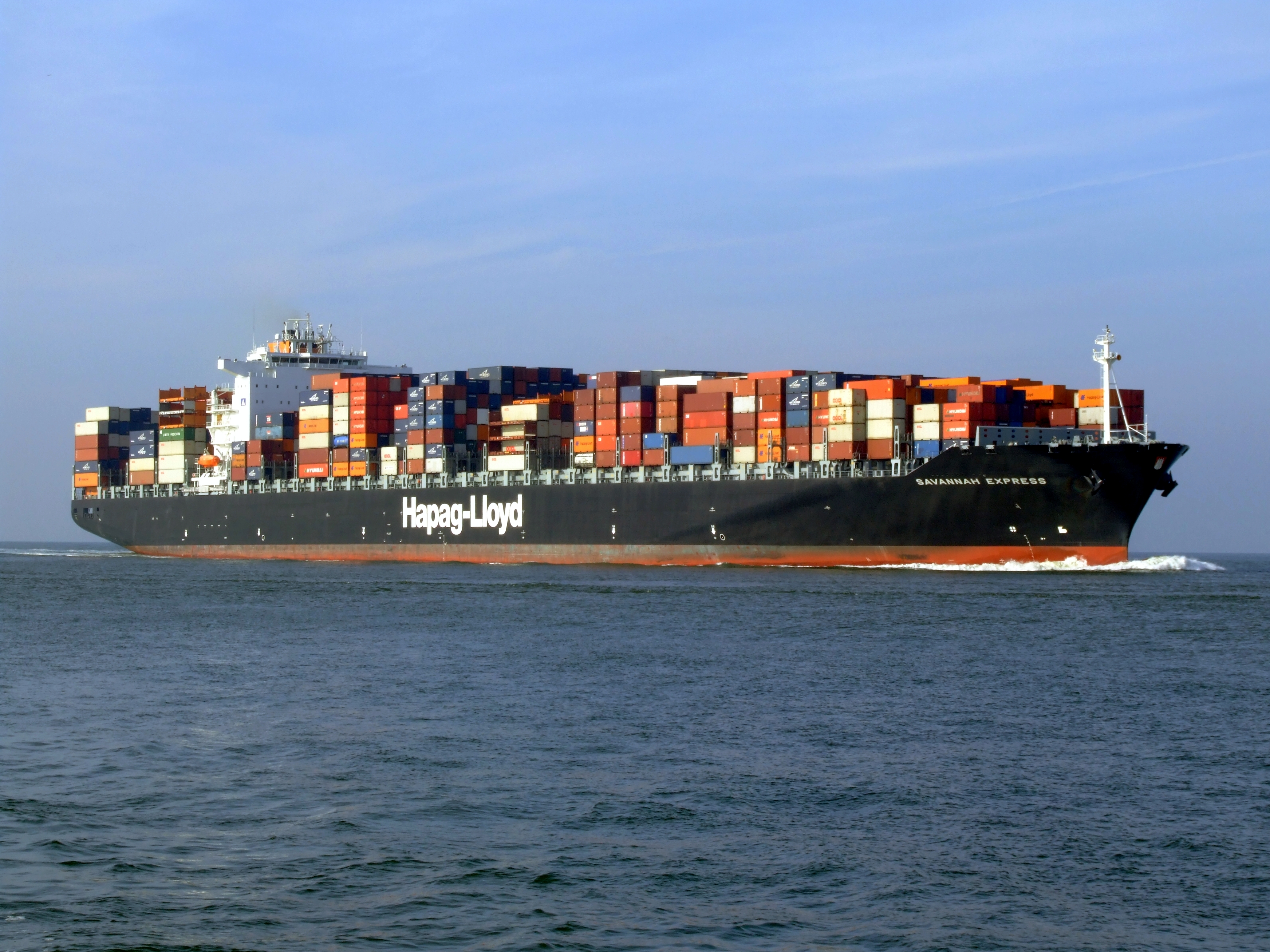 Savannah Express approaching Port of Rotterdam, Holland 18-Jan-2005.